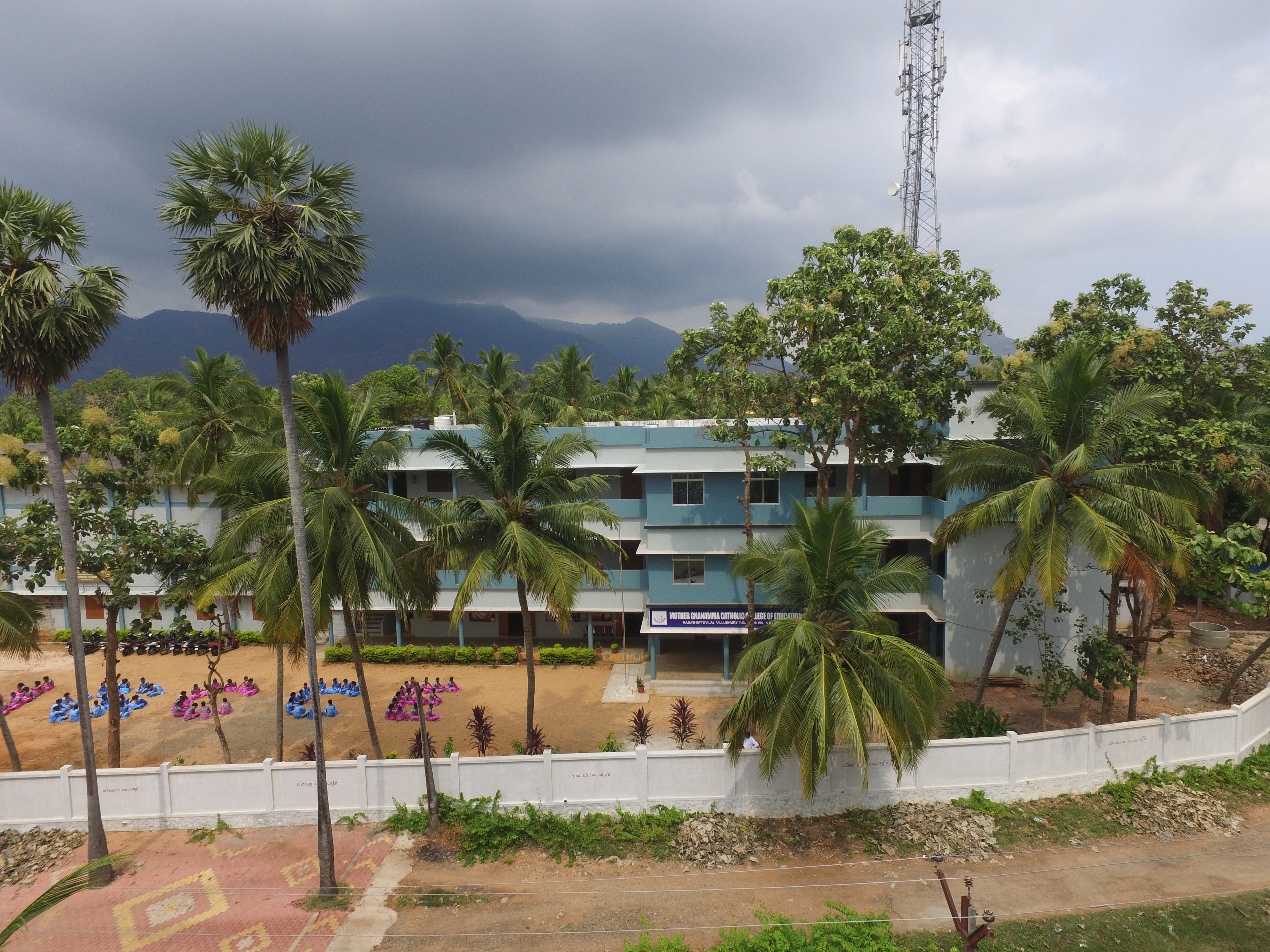 Mother Gnanamma Catholic College